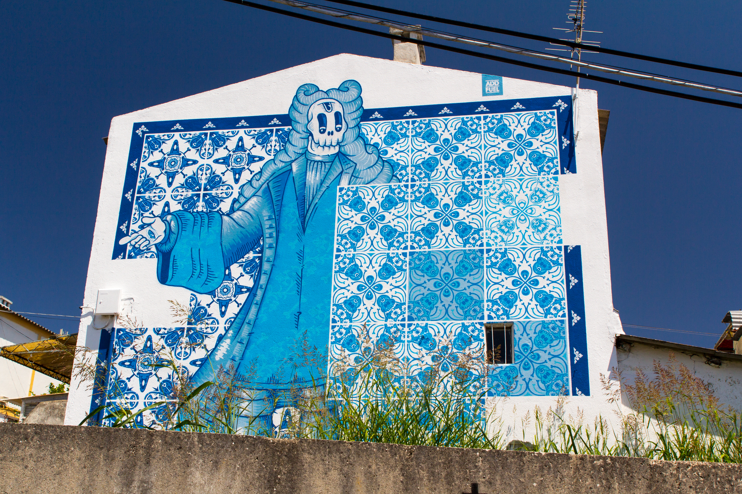 “Comvida” by Add Fuel, part of the Muro Urban Art Festival, in Bairro Padre Cruz, Lisbon